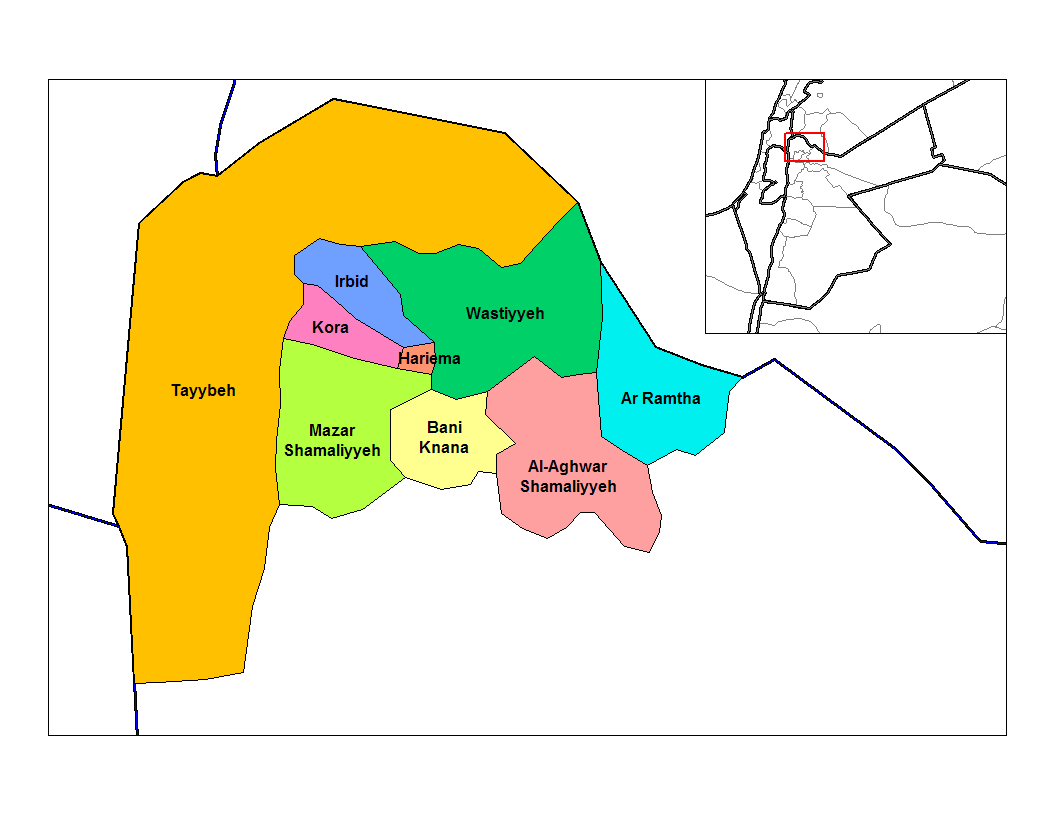 Map of the nahias of Irbid governorate in Jordan. Created by Rarelibra 21:03, 27 December 2006 (UTC) for public domain use, using MapInfo Professional v8.5 and various mapping resources.